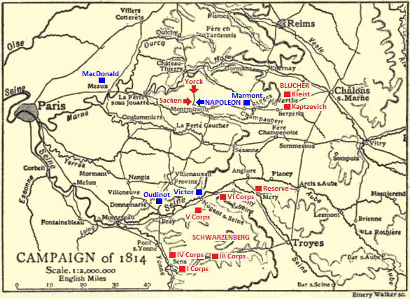 Based on File:Campaign of 1814 by Emery Walker cropped.png. Troop positions were added by D.J. Maschek. The original was created in 1911 for Encyclopedia Britannica by Emery Walker.